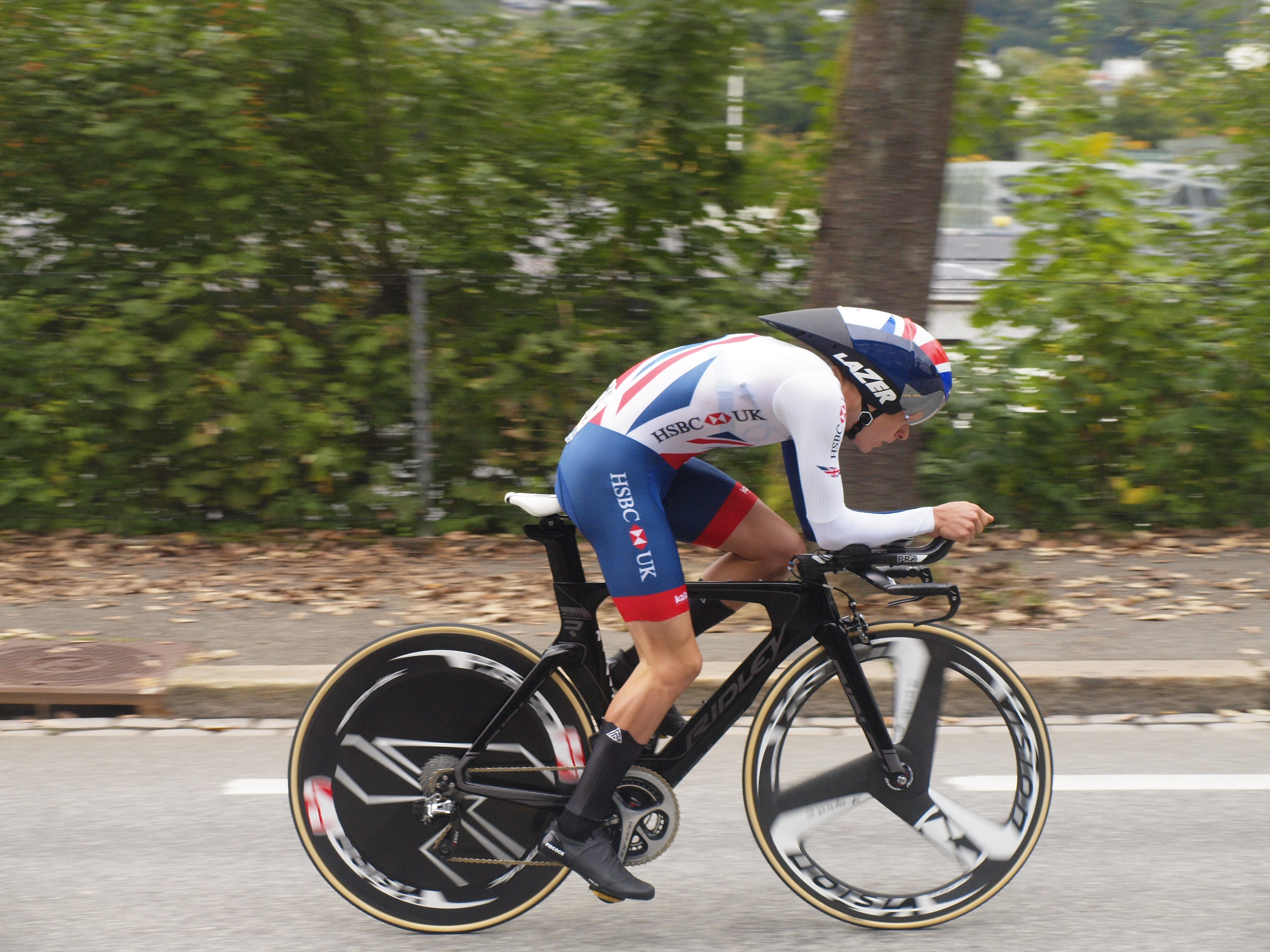 Thomas Pidcock at the 2017 UCI World Championships